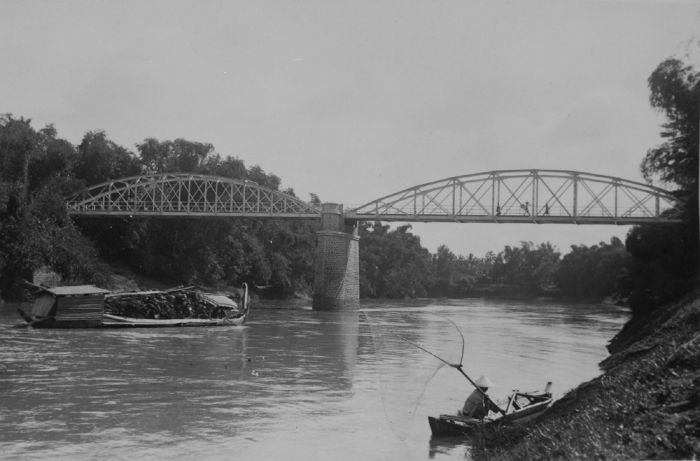 Bridge with pedestrians on the Solo River, in the middle of the river is a boat loaded with wood and along the side is a fisherman with a fishing net in a rowboat.